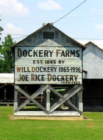 Dockery Farms / Dockery Plantation — in Ruleville, Sunflower County, Mississippi. In the Dockery Farms Historic District, on the National Register of Historic Places in Mississippi in Sunflower County. The place where the Delta Blues was born. Original description This picture was taken by Carla Batchelor on "The Civil Rights Road" trip in May 2005 with Western Carolina University's History Department. The photo album can be access at